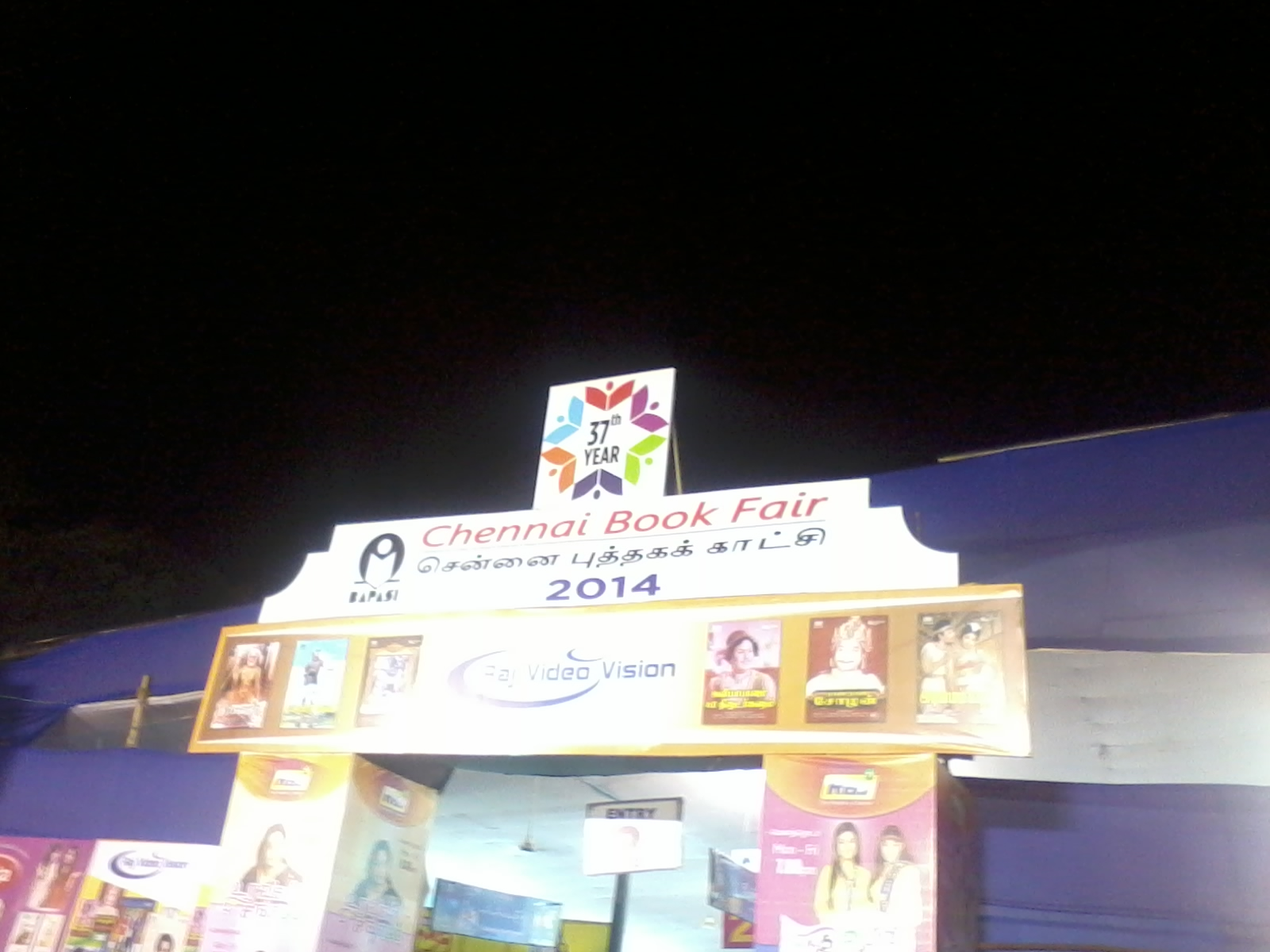 This photograph was taken on 17th Jan 2014 at the Book Fair in Chennai, India